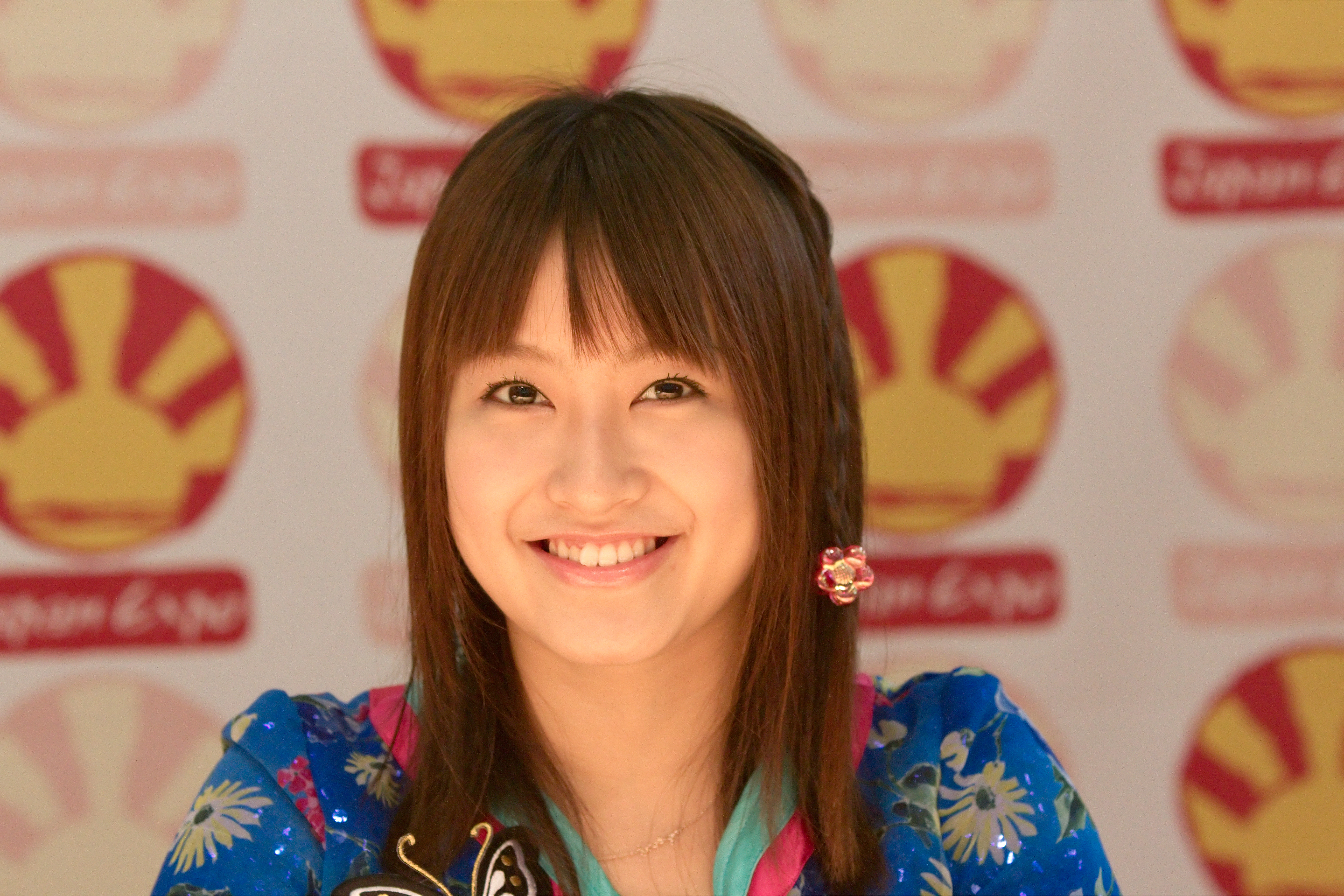 Lin Lin of Morning Musume during autograph session at Japan Expo, Sunday, July 03, 2010 (Paris, France).